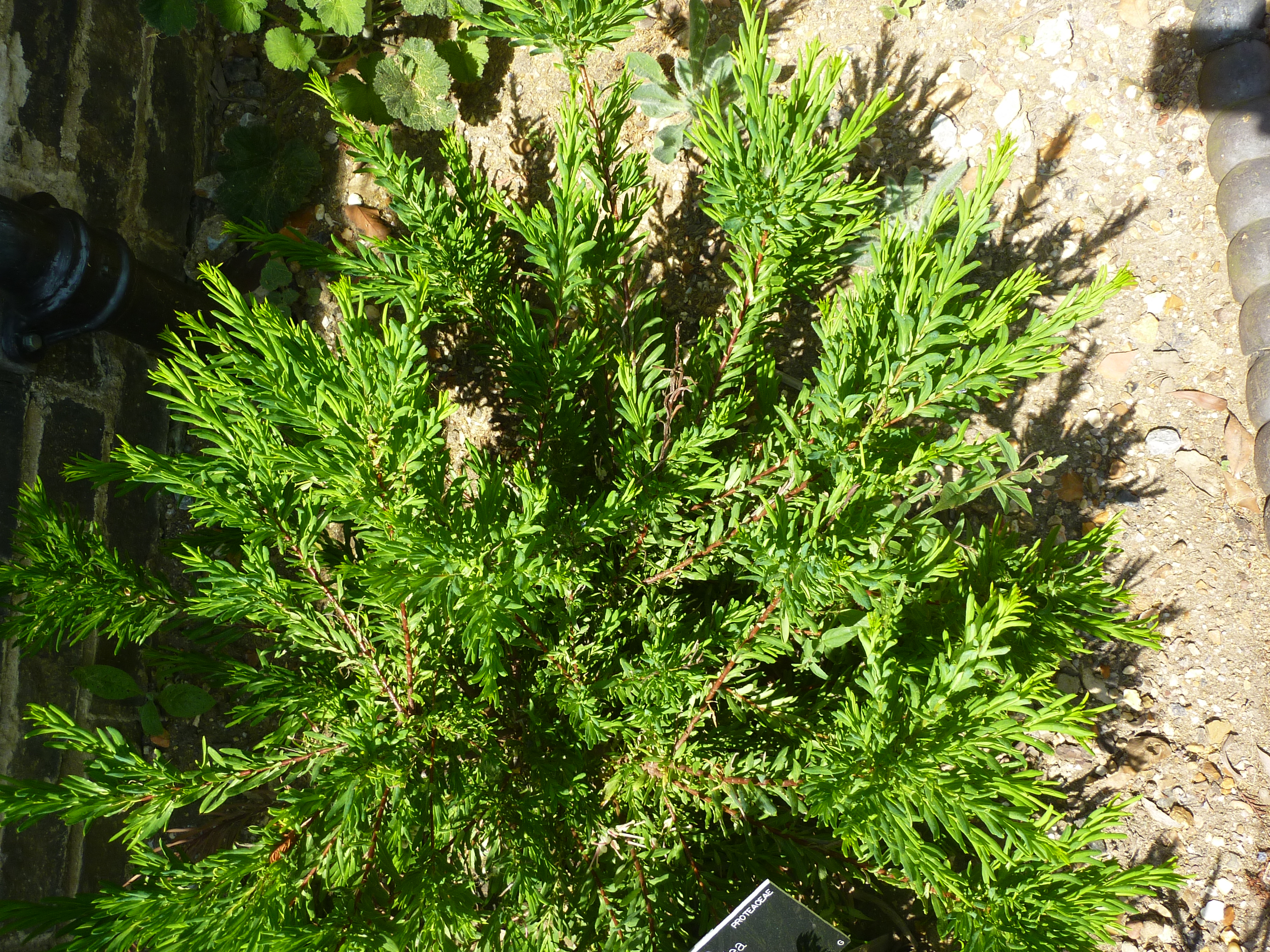 Taken in the Cambridge University Botanic Garden